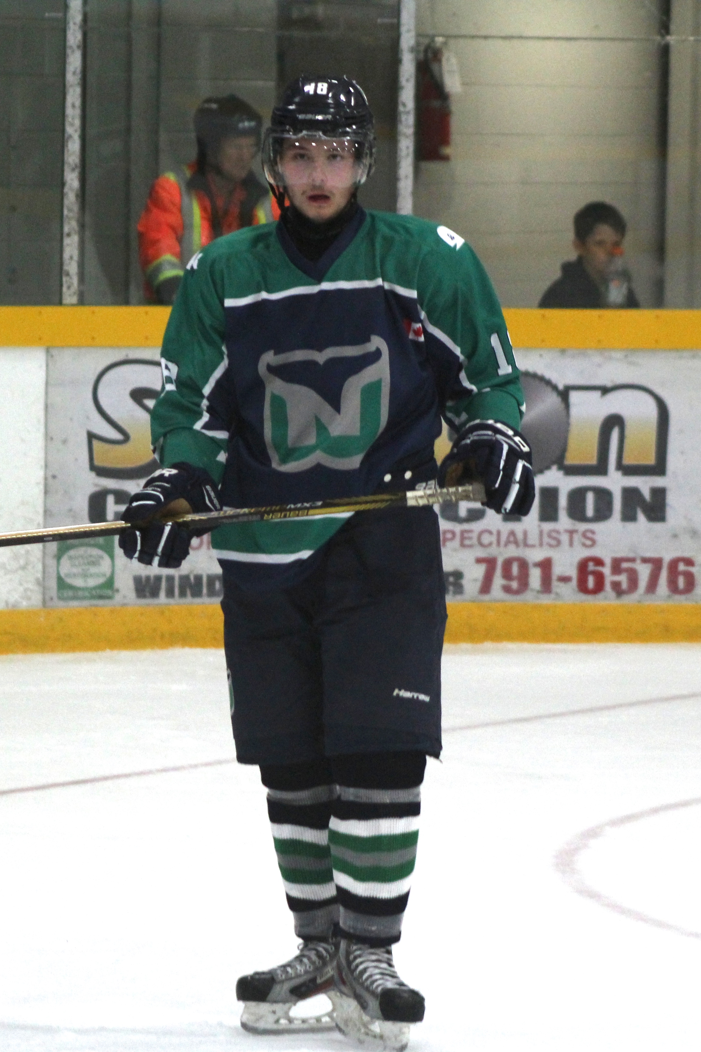 These images of GMHL Action action during the 2015-16 season are taken by Devan Mighton.